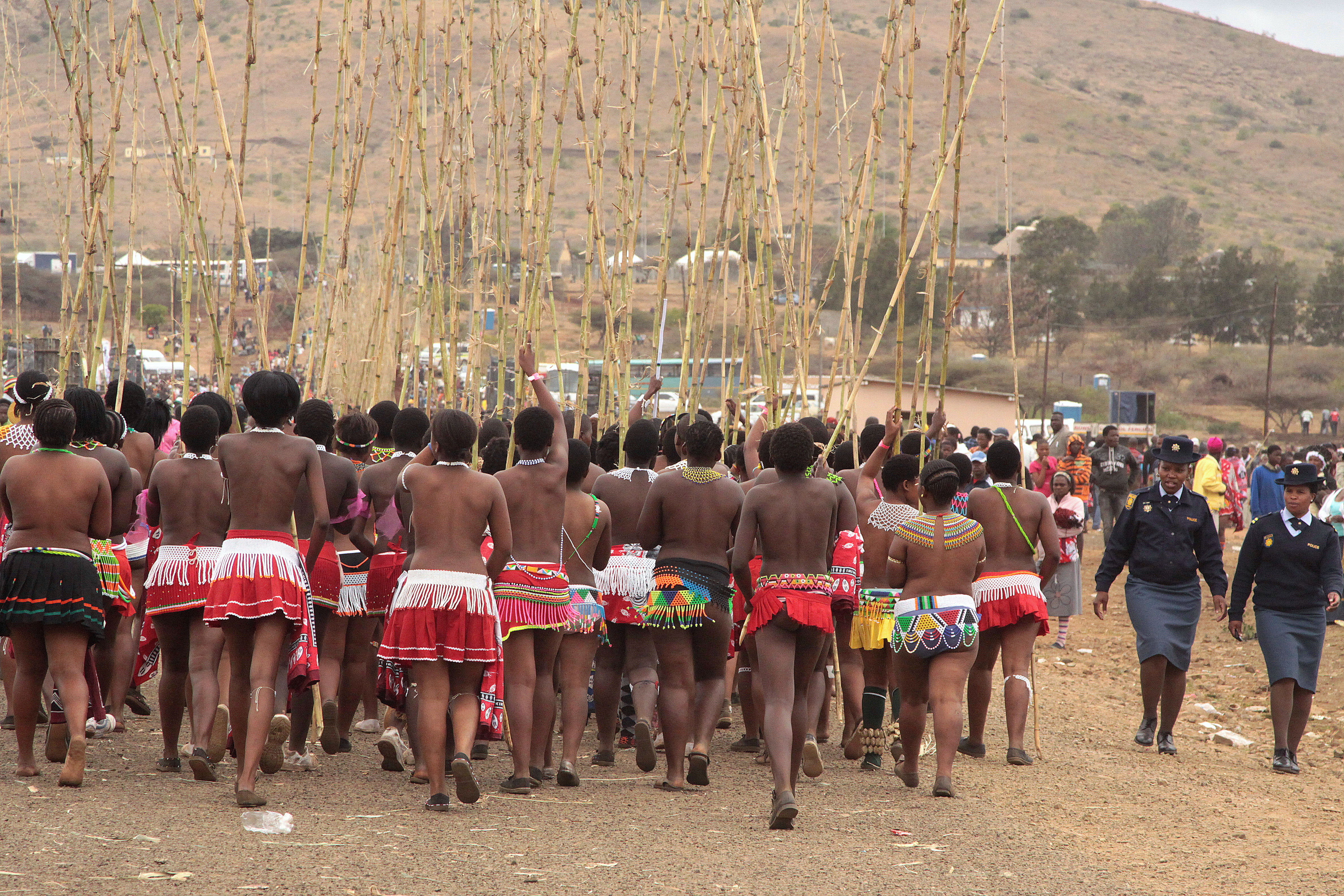 Zulu Reed Dance Ceremony. Once a year, in the heart of South Africa's Kingdom of the Zulu, thousands of people make the long journey to one of His Majesty’s, the King of the Zulu nation's royal residence at KwaNyokeni Palace. Here, in Nongoma, early every September month, young Zulu maidens will take part in a colourful cultural festival, the Royal Reed Dance festival - or Umkhosi woMhlanga in the Zulu language.